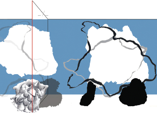 drawing by Roland Schar, title: Cabinet; format: 21x30